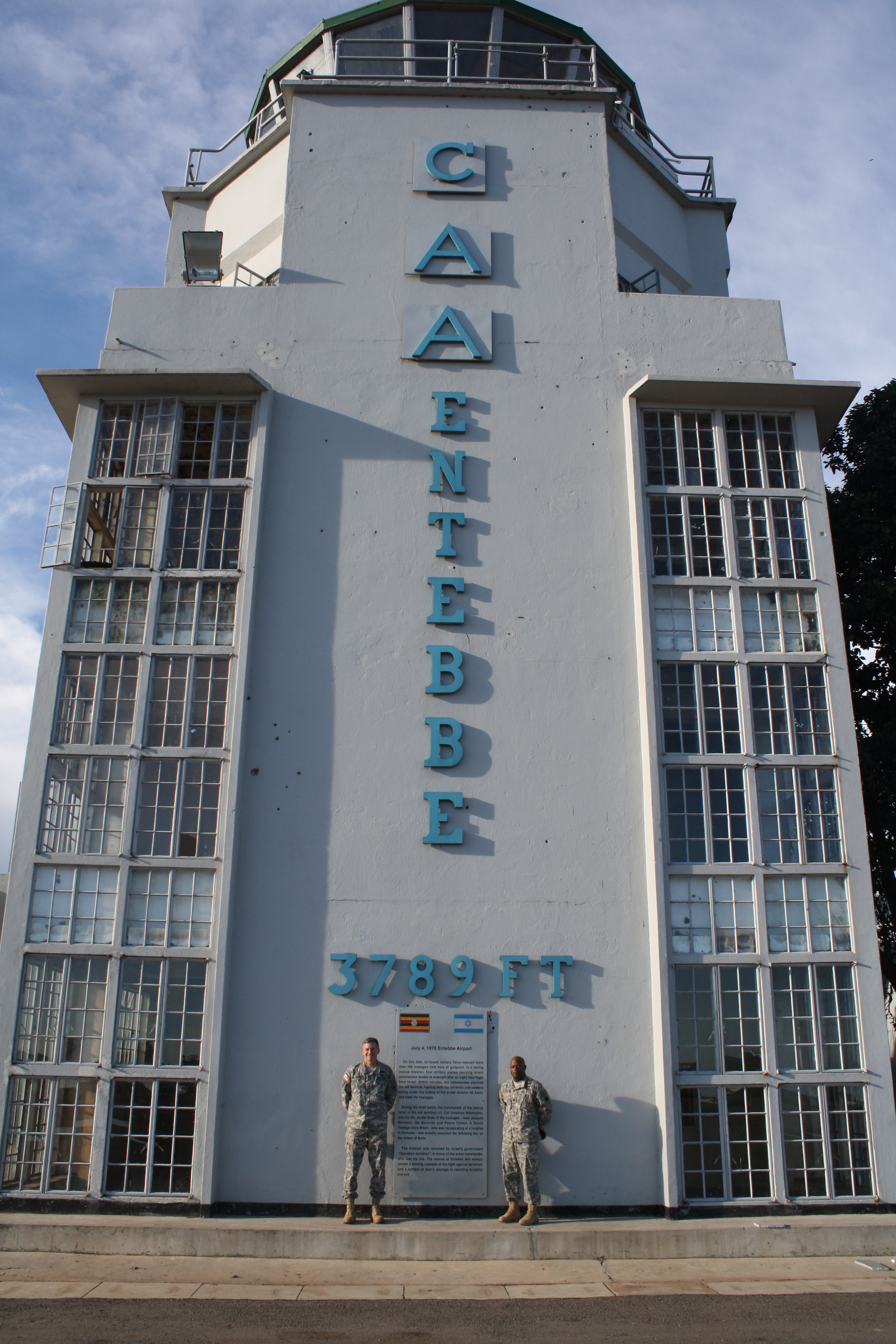 The old terminal building of the Entebbe International Airport. Photo was taken during Natural Fire 10, a multi-national, globally resourced military exercise focused on humanitarian assistance and disaster relief. Pictured in the photo are Maj. Gen. William B. Garrett III (left), U.S. Army Africa commanding general, and Command Sgt. Maj. Gary Bronson (right), U.S. Army Africa command sergeant major.